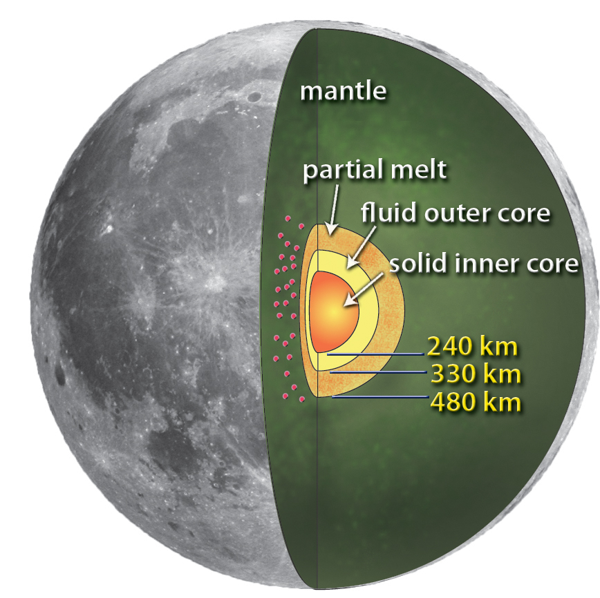 Internal structure of the Moon, in English.